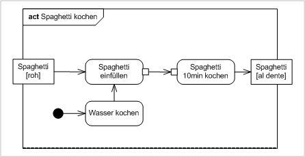 Activity diagram